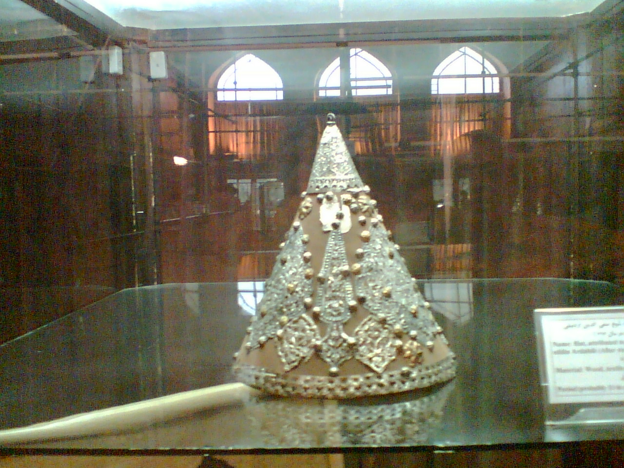 Conical cap of Shaykh Safi al-Din - from Chehel Sotoun Museum